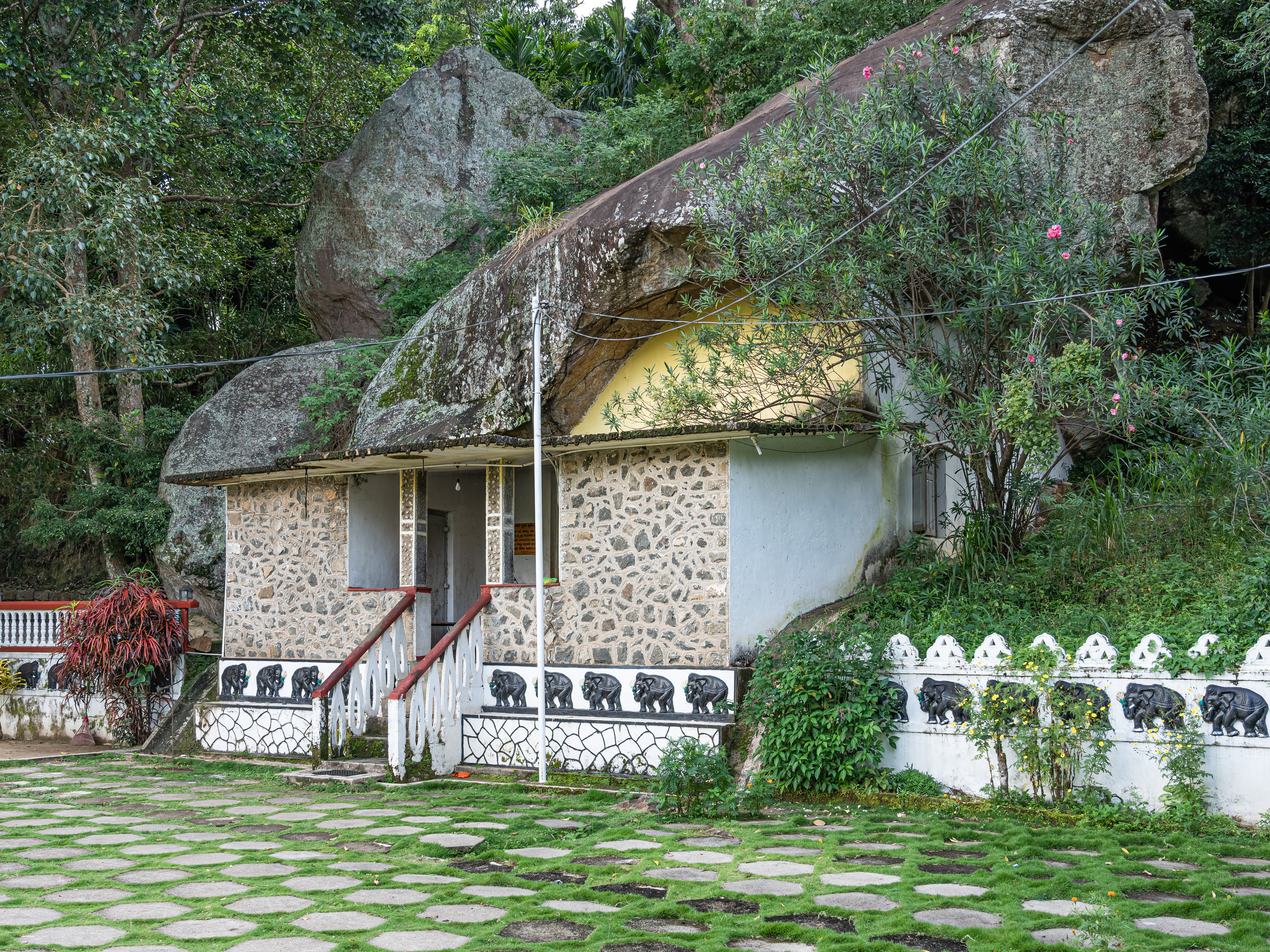 Ravana rock temple in Ella, Sri Lanka: exterior view